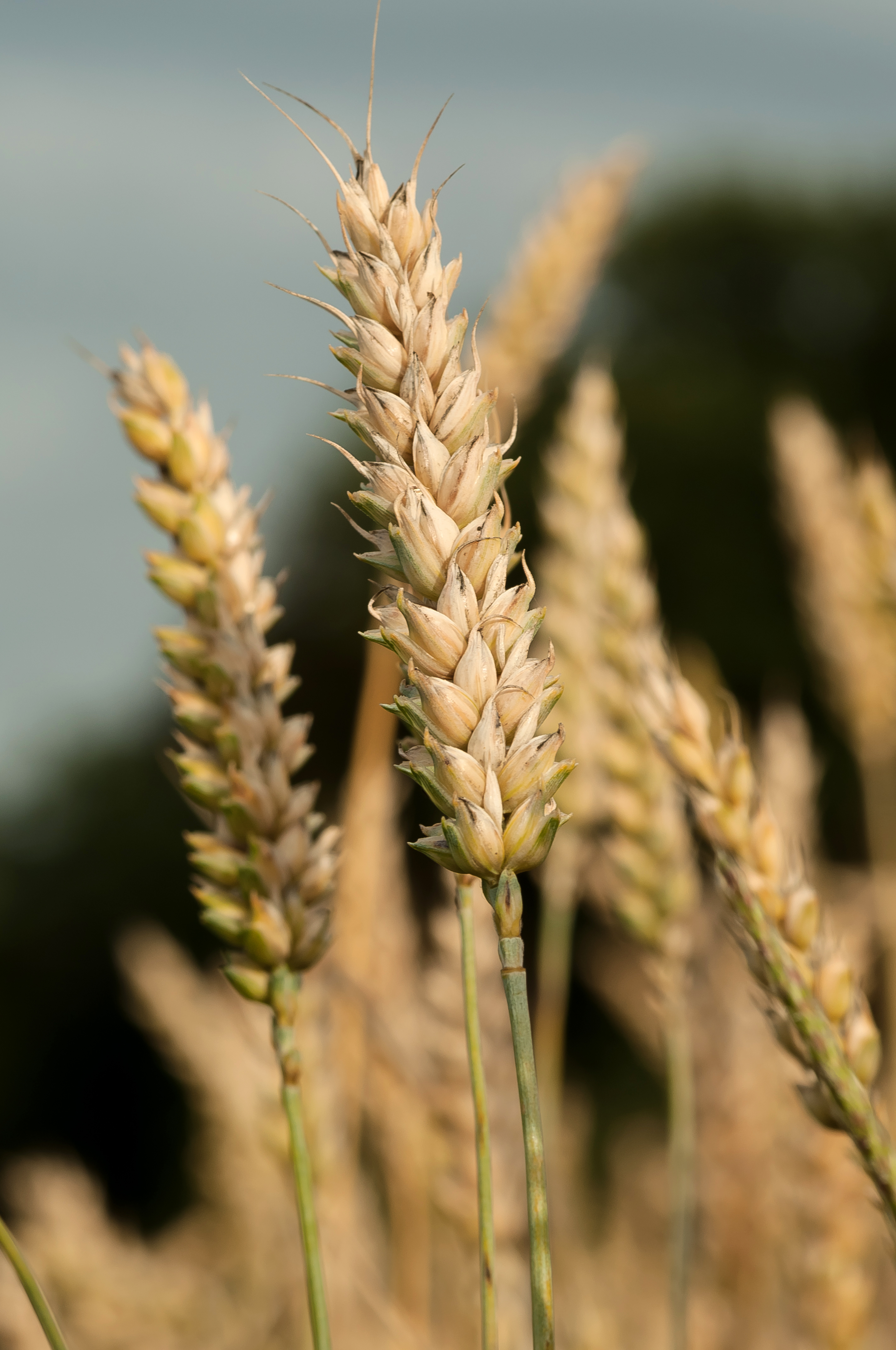 Wheat